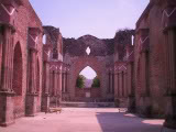 templo gótico inconcluso